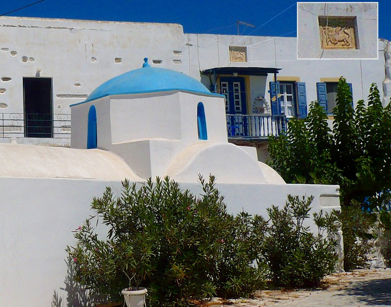 The Venetian emblem at Antiparos house